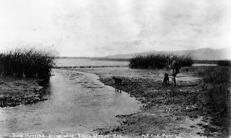 Duck hunting south of Santa Monica on the Ballona lowlands, this area became Marina Del Rey.